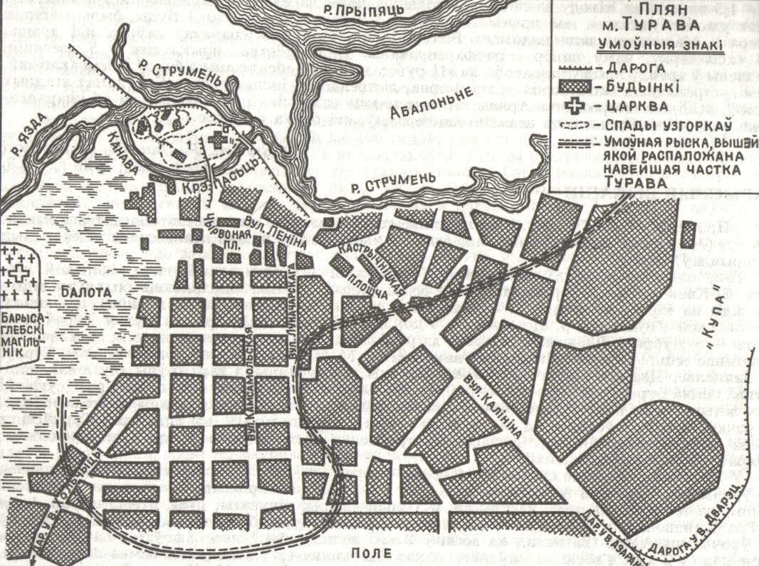 Plan of Turaw, Belarus